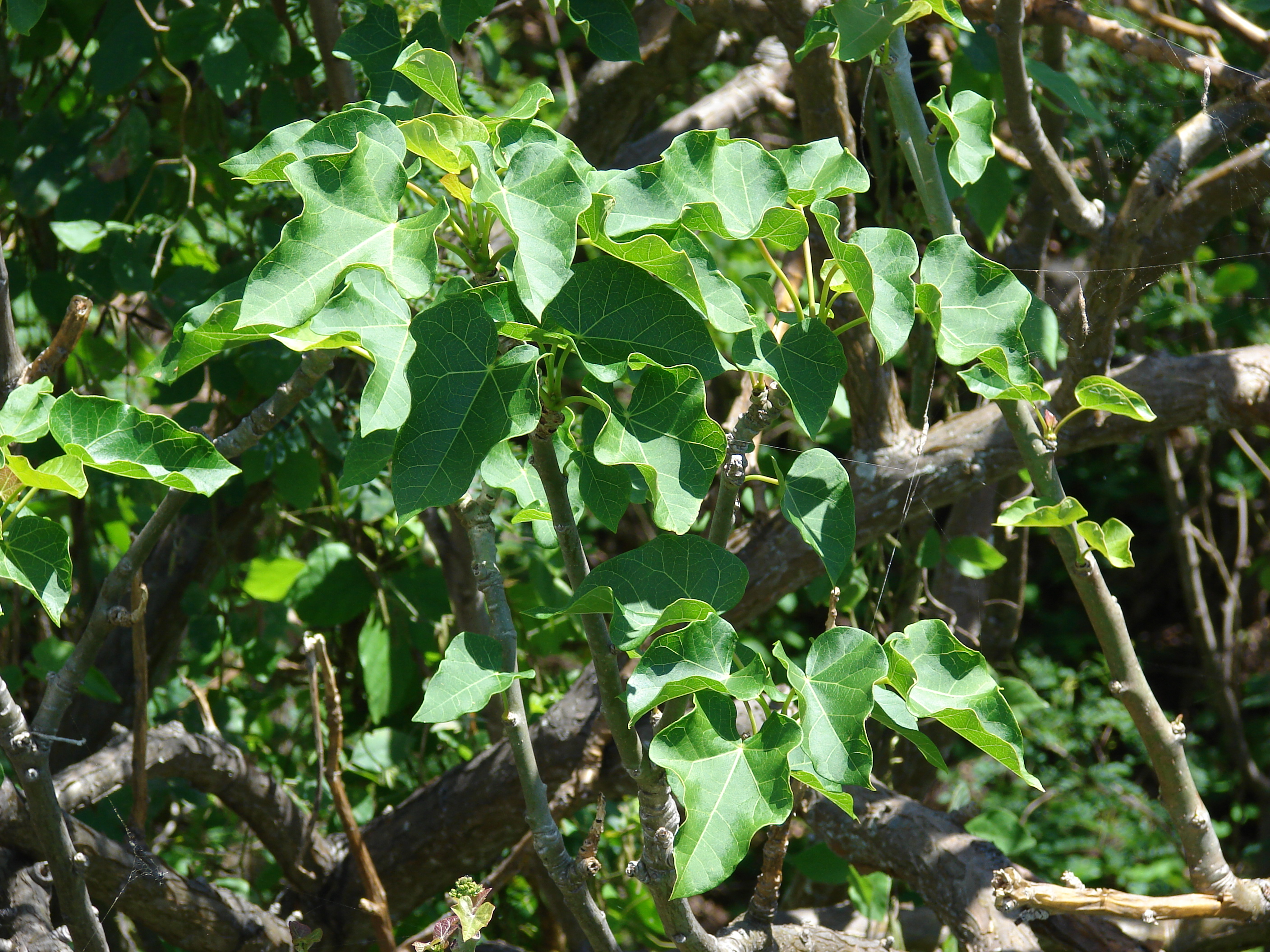 Jatropha curcas (leaves). Location: Maui, Kahikinui